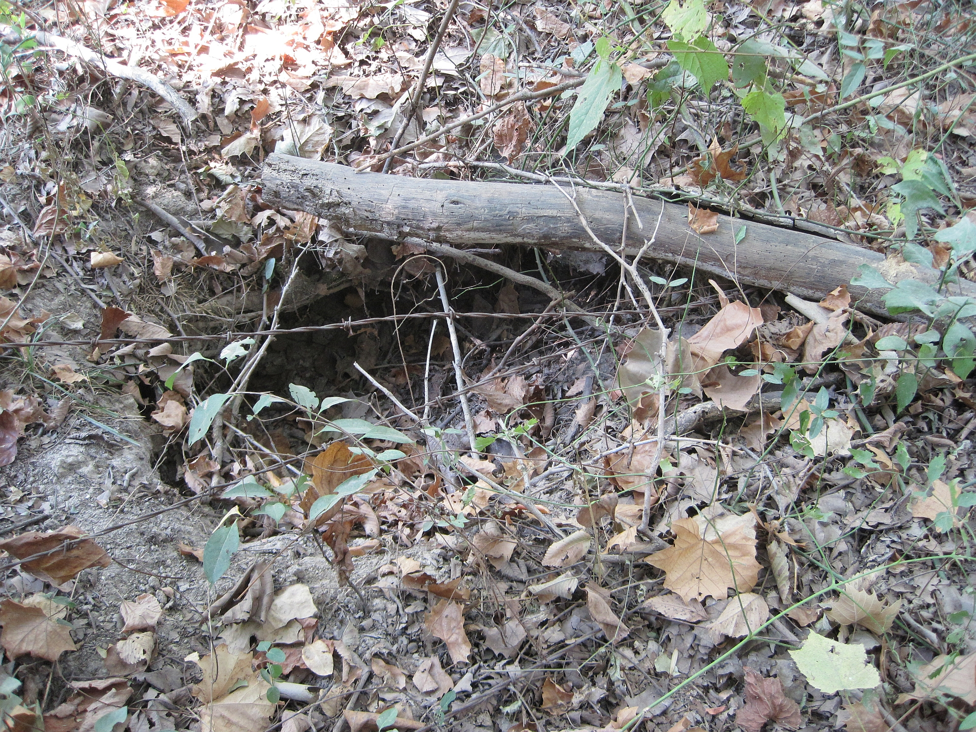 Wolf River Trails, West of Germantown Parkway and north of the Wolf River in Memphis, Tennessee. Armadillo burrow.